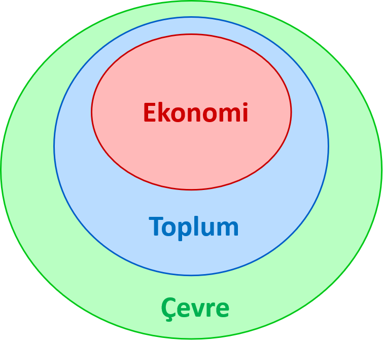 Turkish png version of File:Nested sustainability-v2.svg by KTucker.